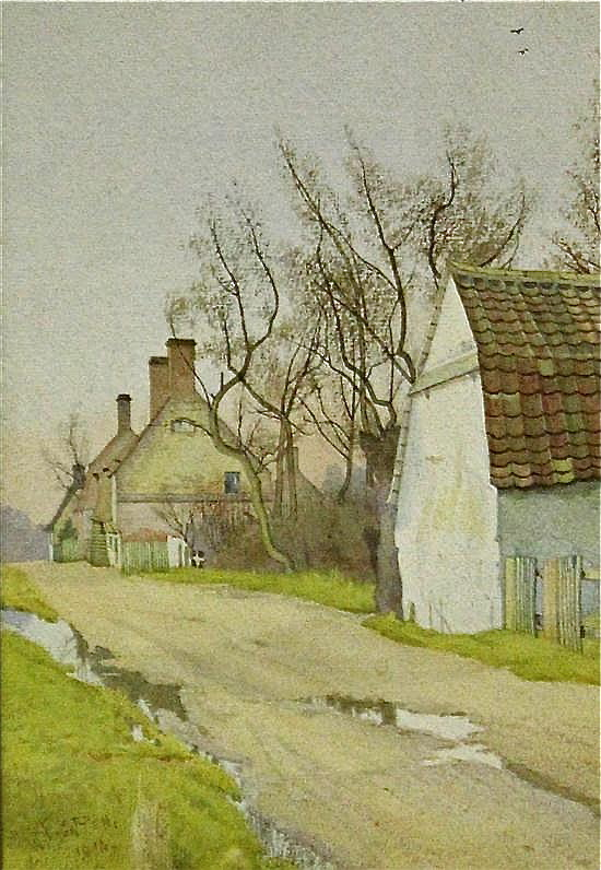 Example of watercolour painting by W.F. Garden (Garden William Fraser) 1856-1921